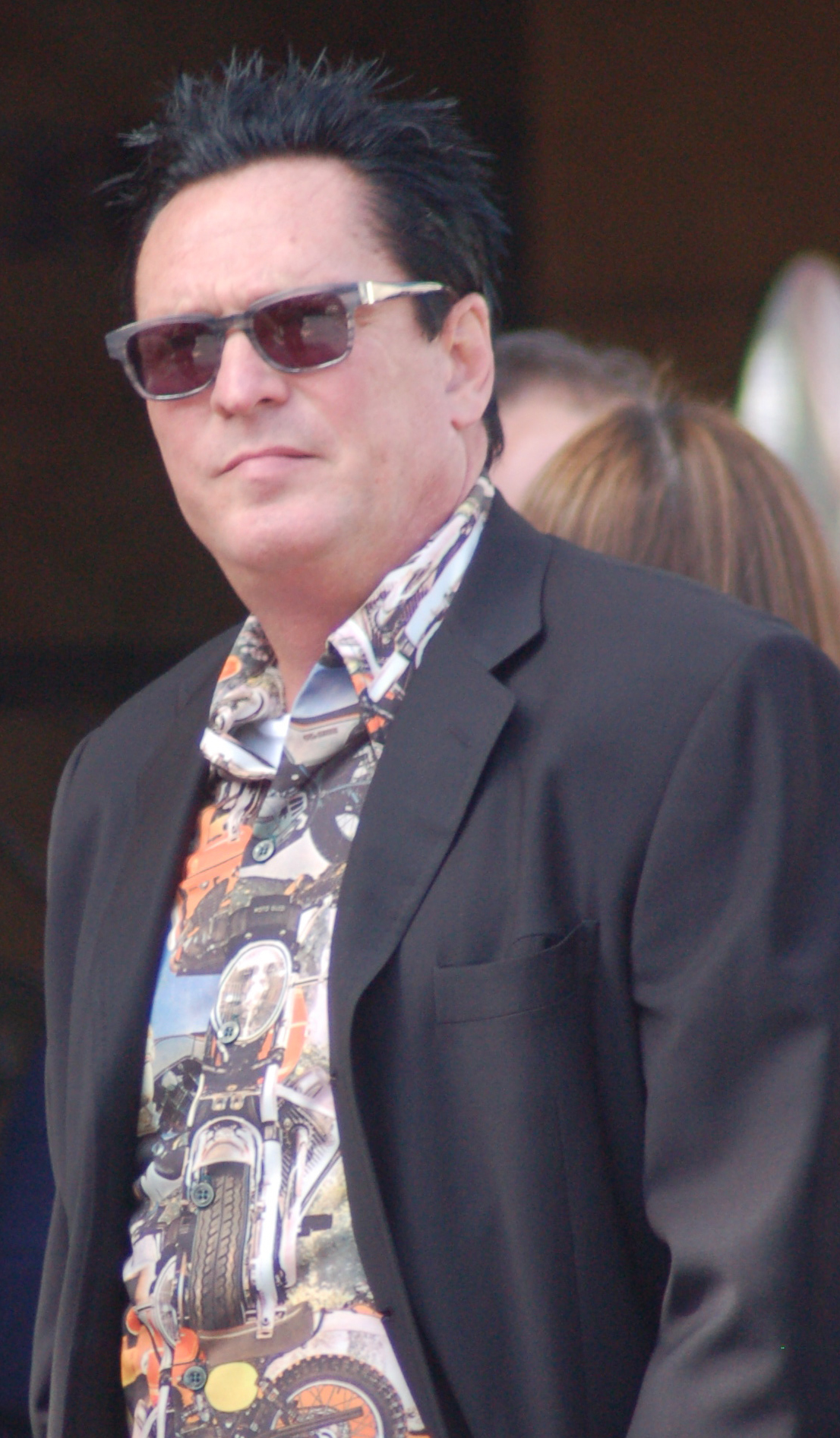 Michael Madsen attending a ceremony for Dennis Hopper to receive a star on the Hollywood Walk of Fame.